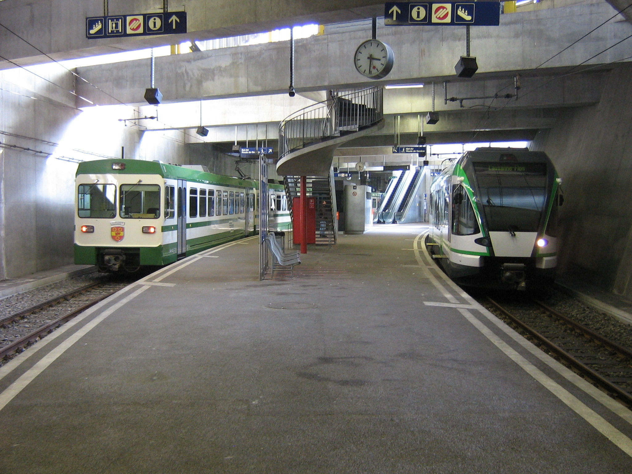 Terminal station of the LEB: Lausanne-Flon. View of the Be 4/8 33 Bercher on line 2 (left) and RBe 4/8 43 on line 1 (right).